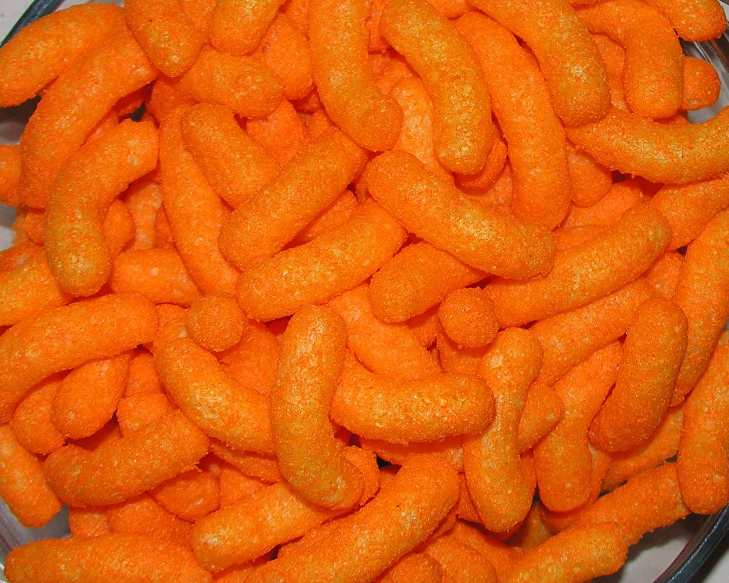 cheese puffs, the soft kind